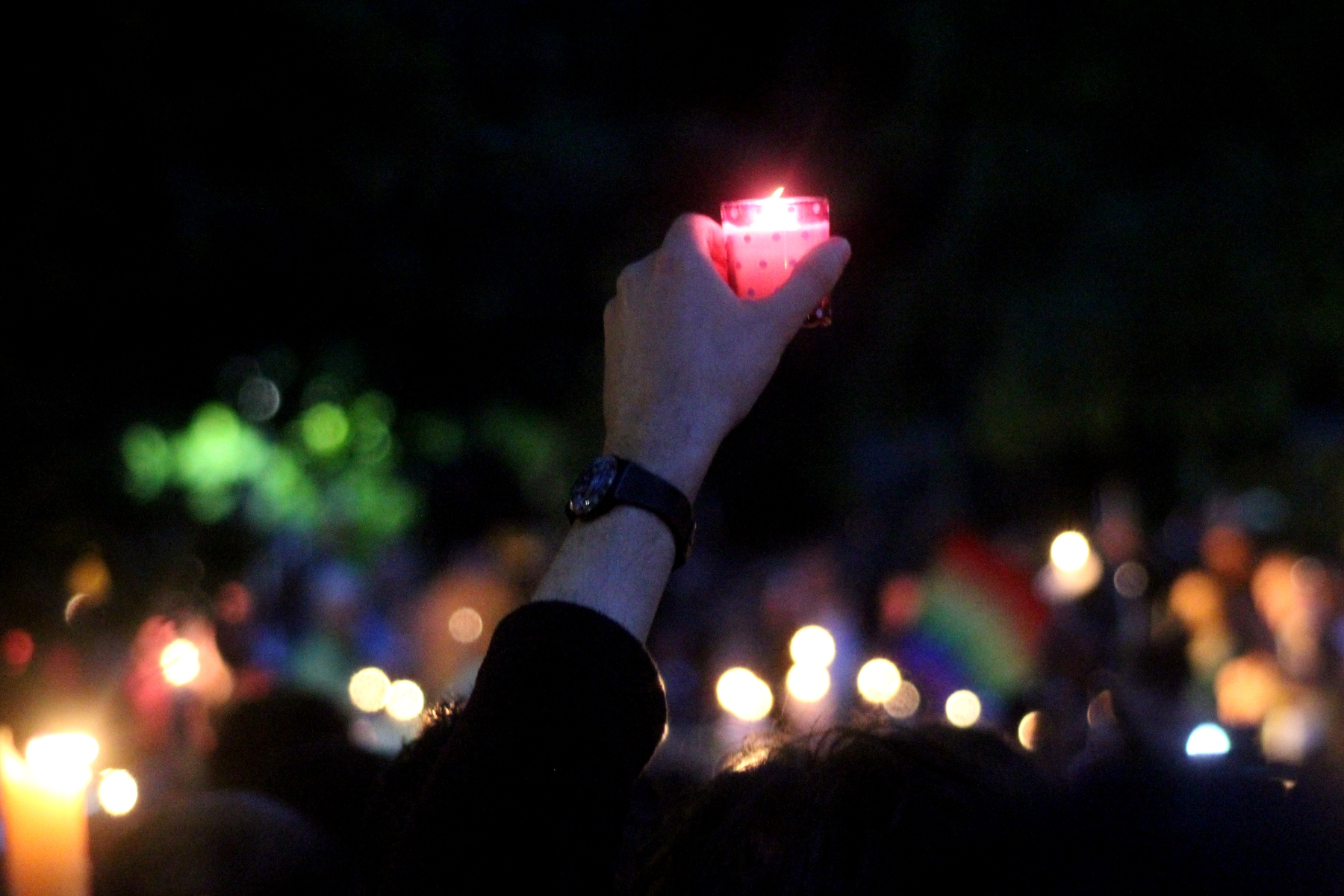 Vigil in support of the victims of the 2016 Orlando nightclub shooting, Toronto, Canada